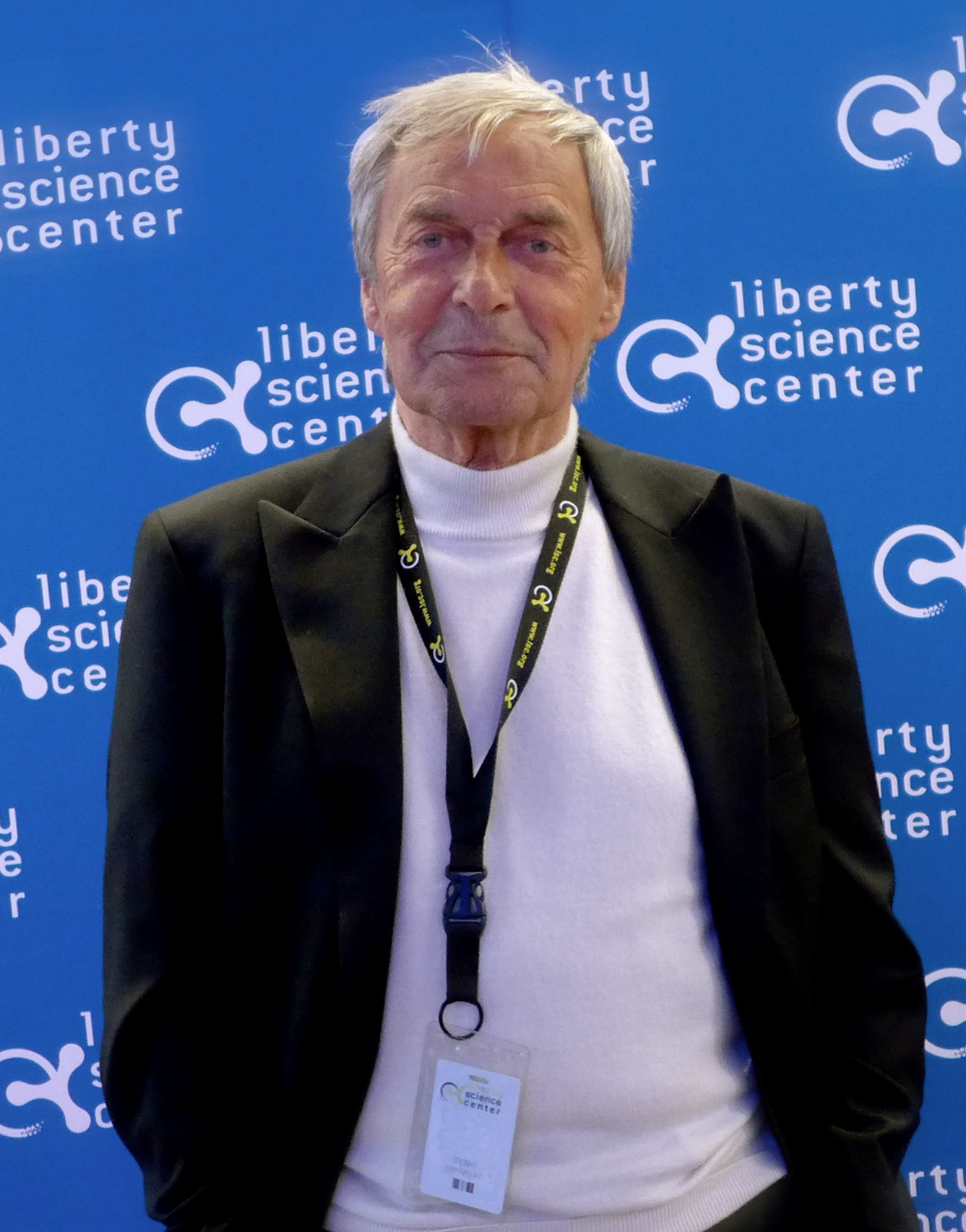 Red carpet photo of Ernő Rubik at 2014 Genius Gala. Rubik was an honored guest at the event.